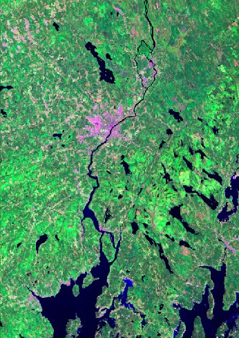 The raw satellite imagery shown in these images was obtain from NASA and/or the US Geological Survey. Post-processing and production by